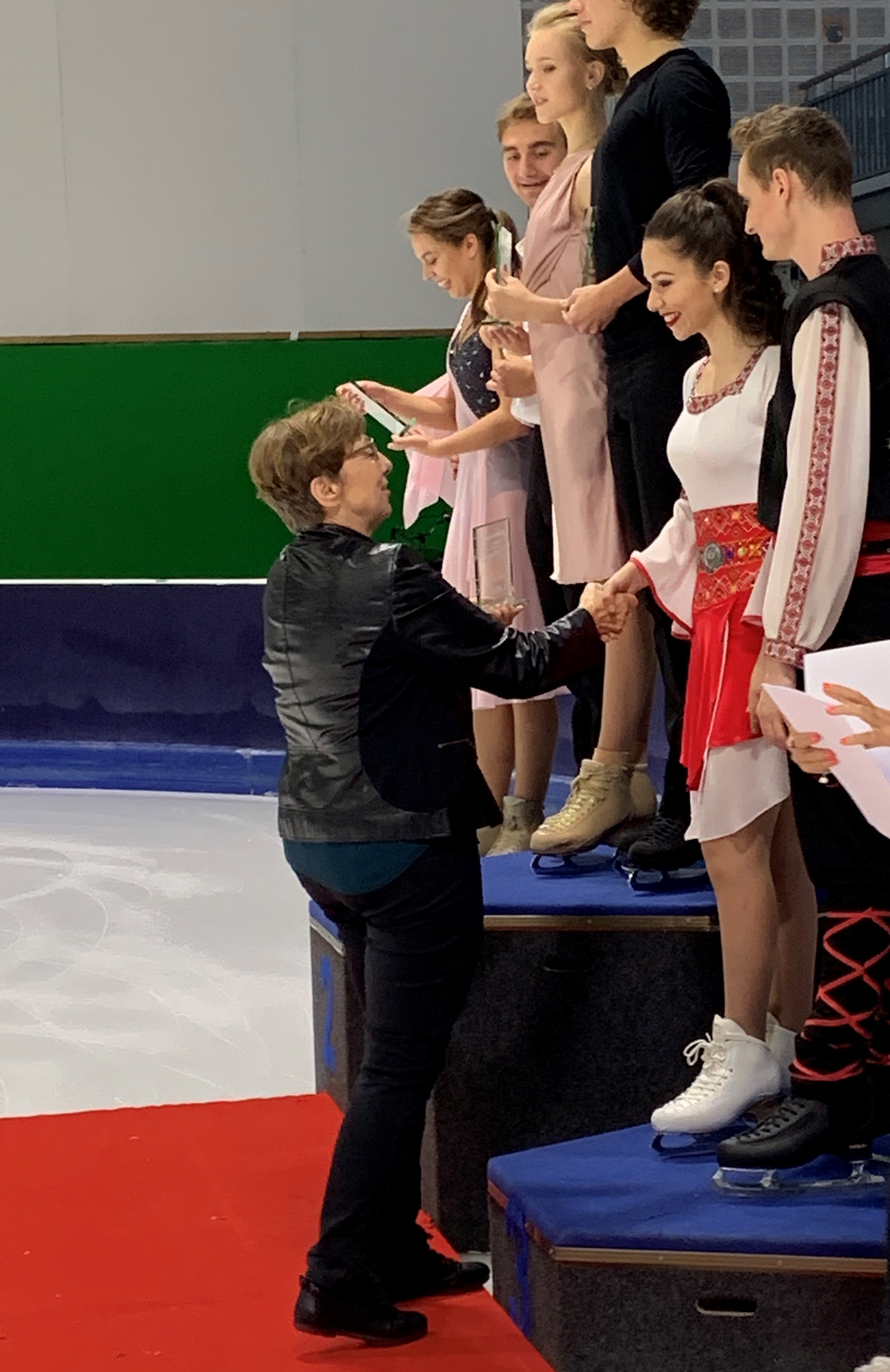 Mina Zdravkova collects Bronze medal for Bulgaria with skating partner Christopher Davis